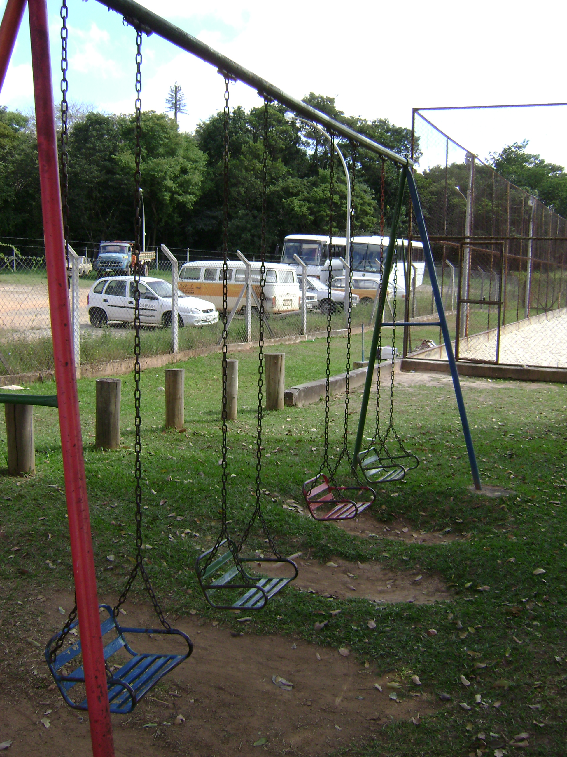 Balanços dentro do campus Pampulha da UFMG (Universidade Federal de Minas Gerais), próximo à ASSUFEMG (Associação dos Servidores da Universidade Federal de Minas Gerais).